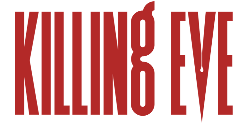 TV series logo